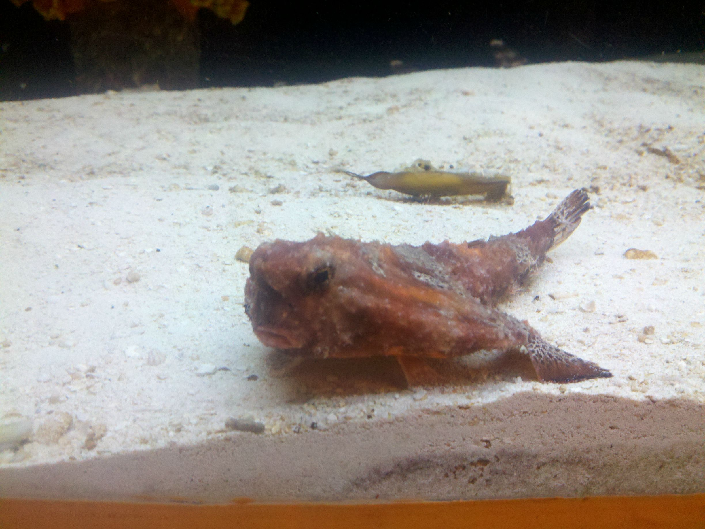 A longnose batfish on the sandy bottom of a tank